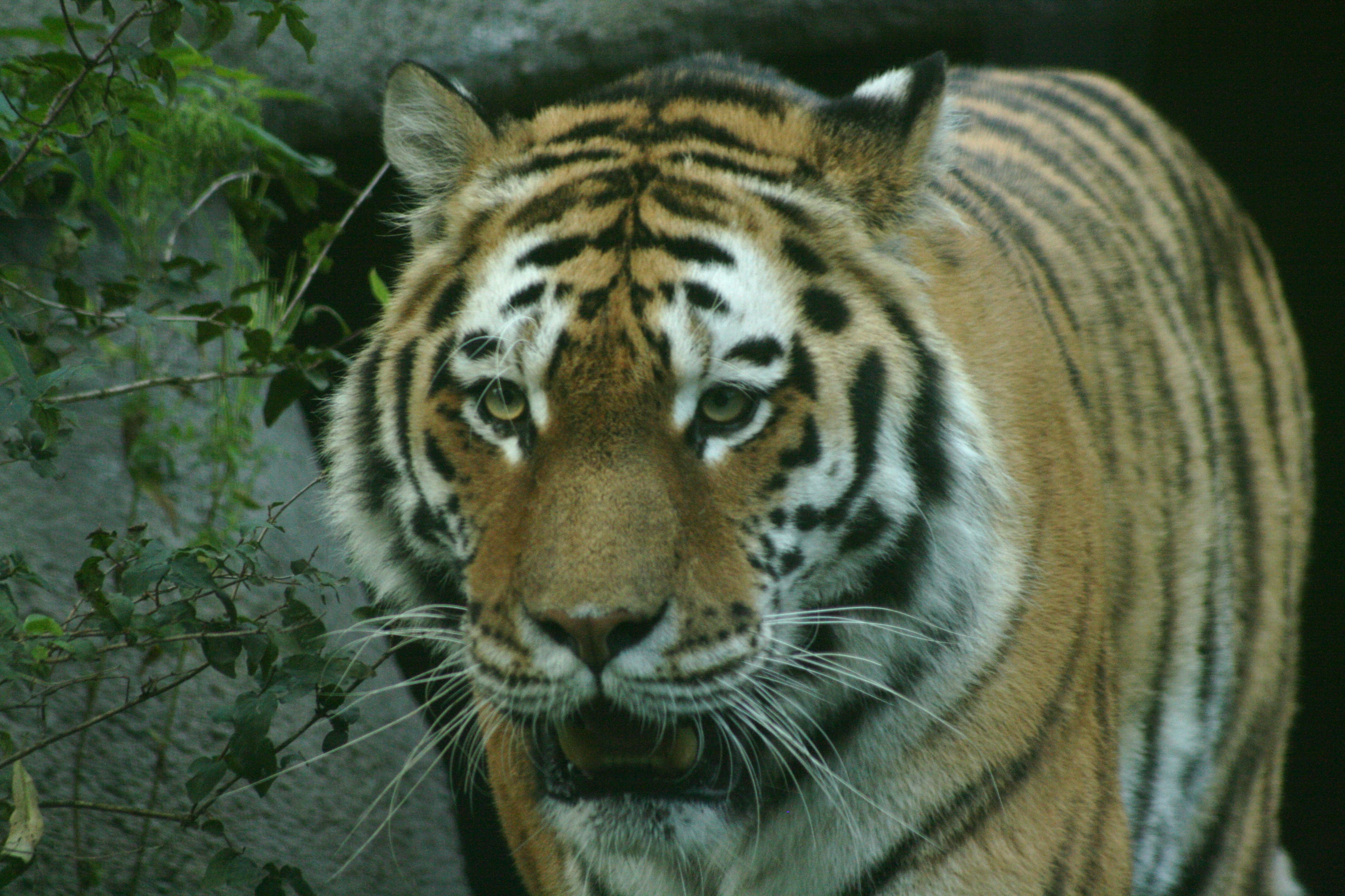 Picture of an Amur tiger in Helsinki Zoo.